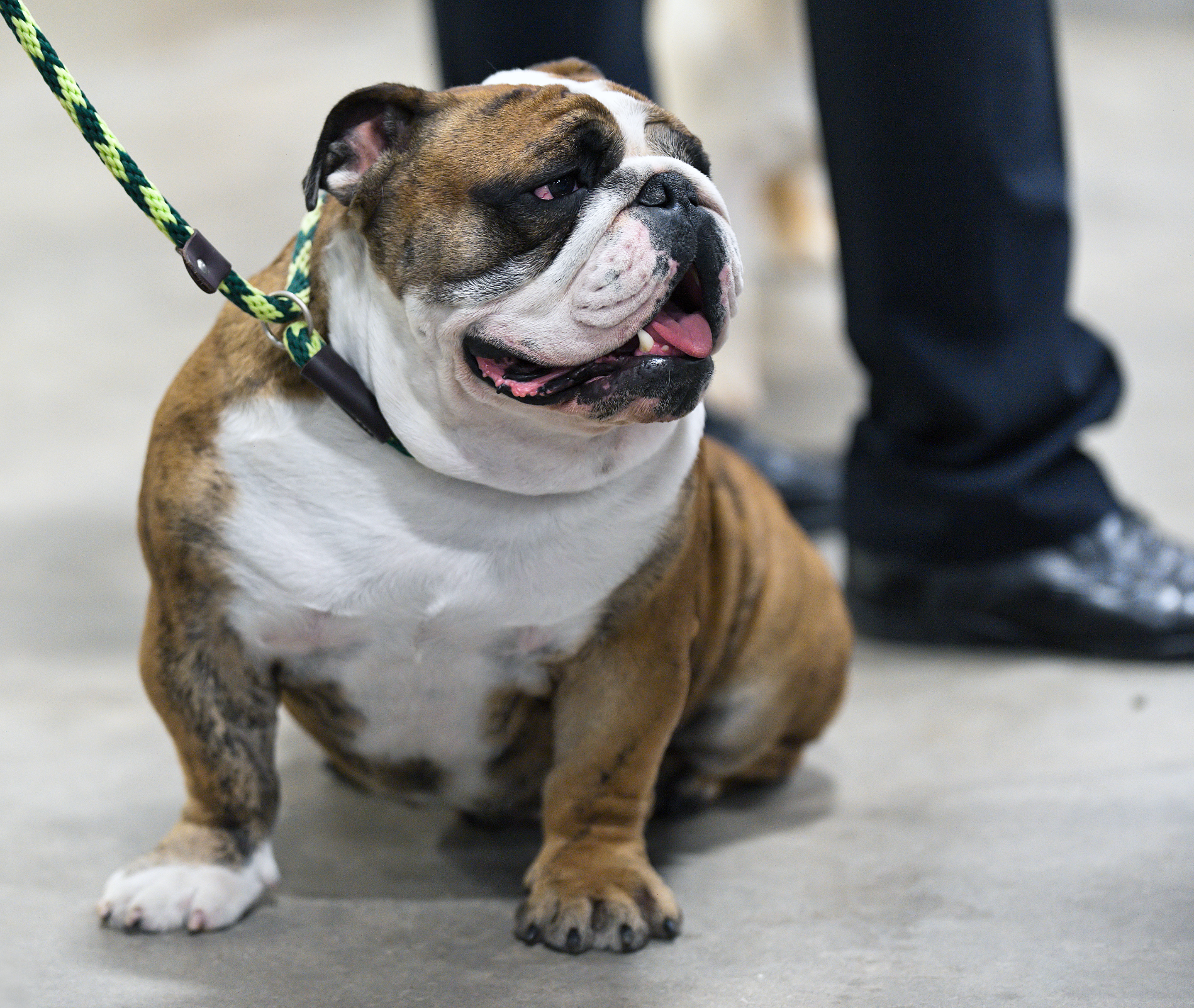 English Bulldog